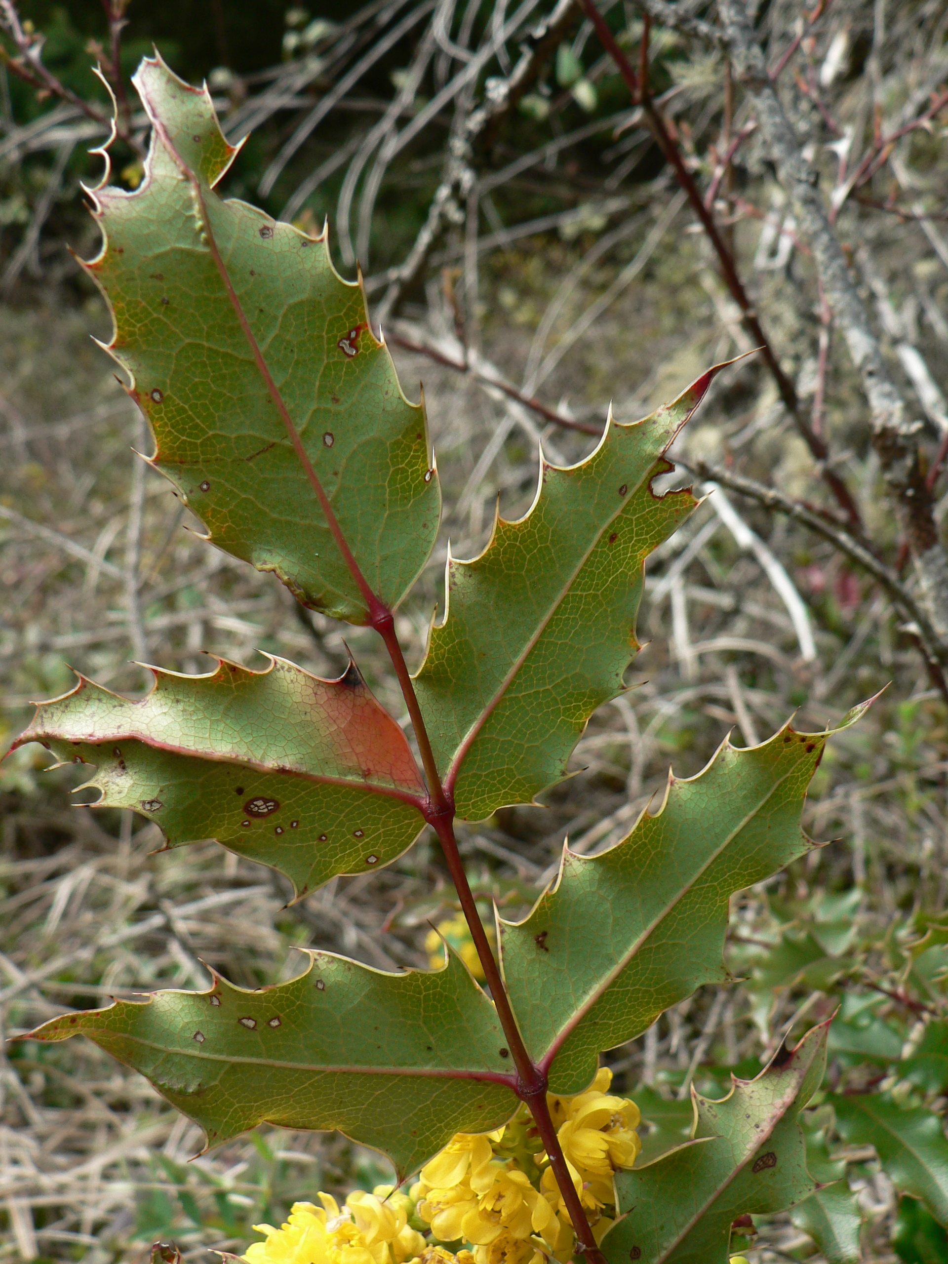 Tall Oregon-grape, Holly-leaved Barberry, Holly-leaved Oregon-grape